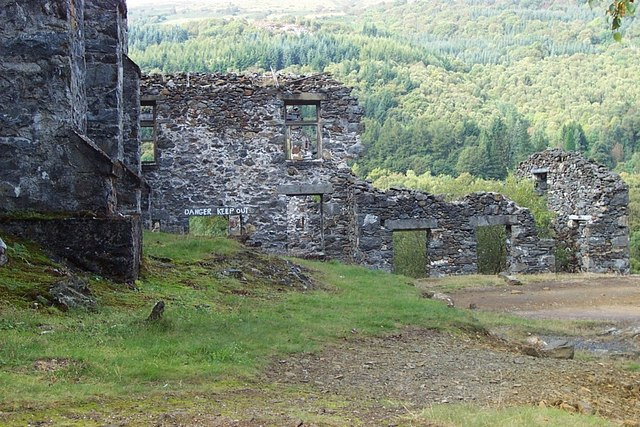 Danger Keep Out. The remains of the Klondyke lead mine at grid reference SH 76500 62157.